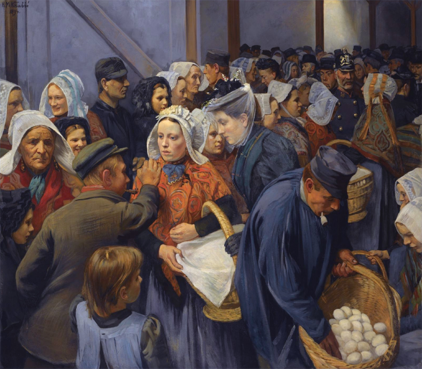 On the market, Brabant 131 x 150.5 cm. signed and dated 1894 u.l. oil on canvas